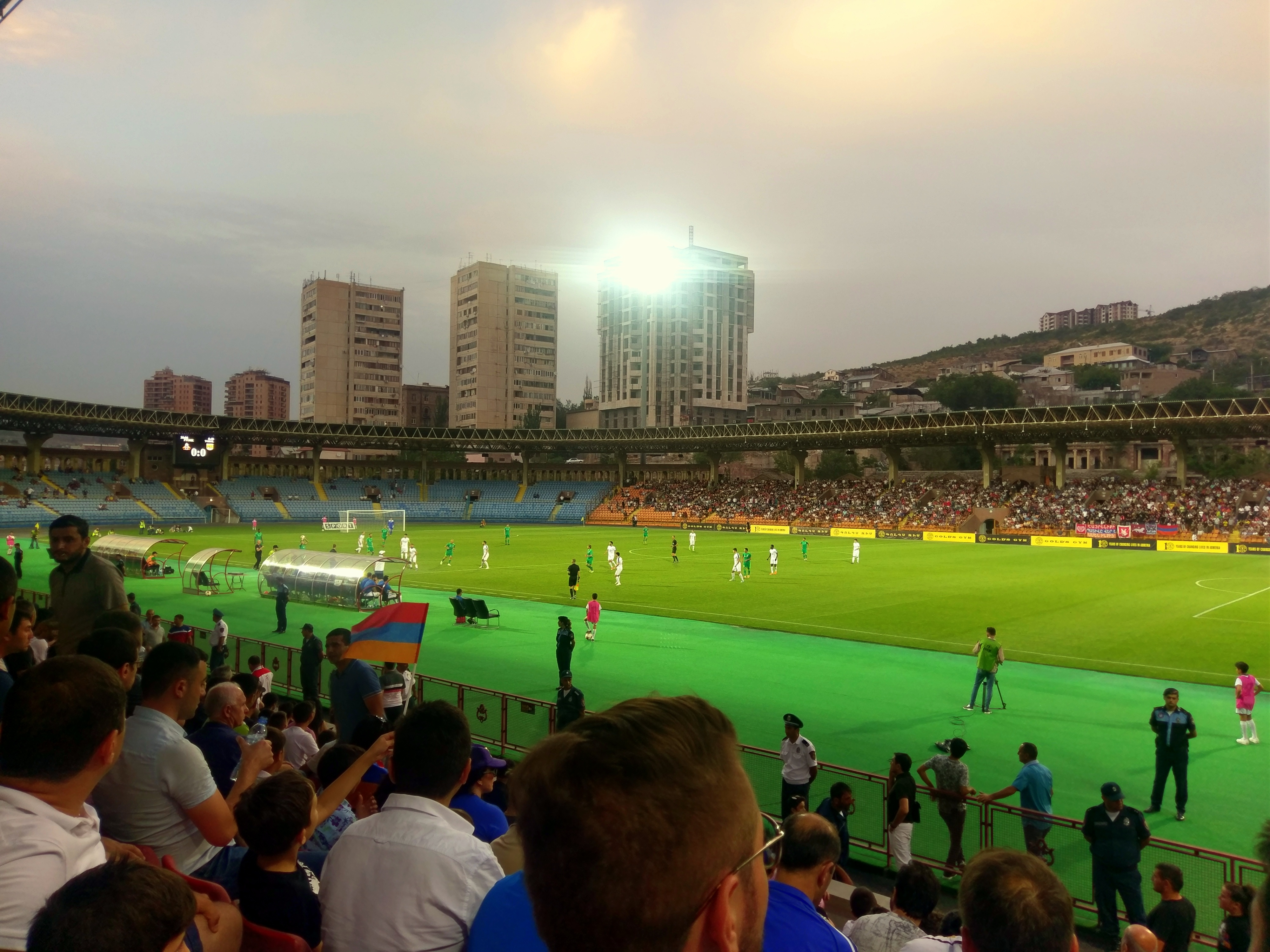 Pyunik vs Tobol, 31 July 2018.